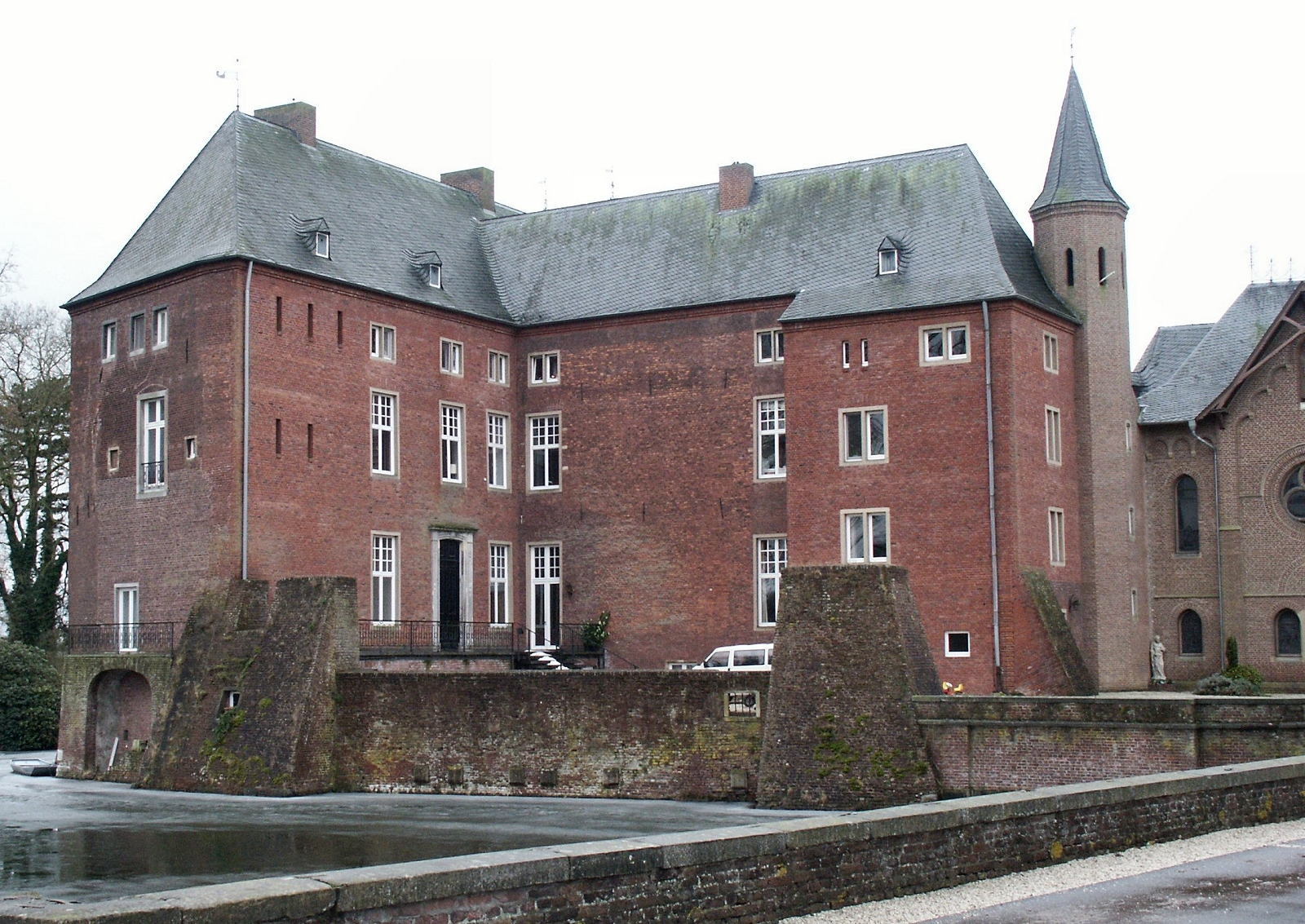 Wissen Castle - mansion